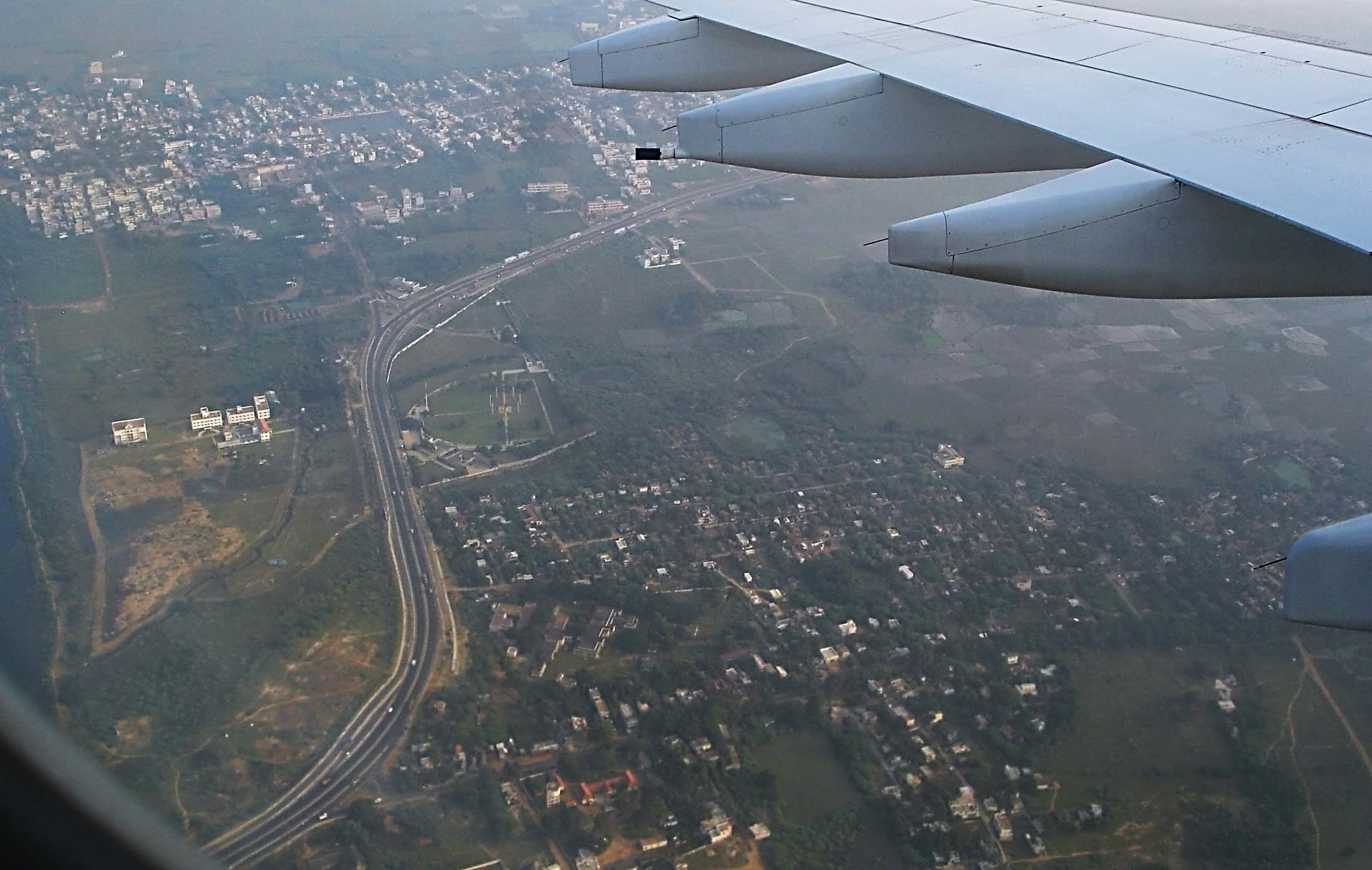 A view of Sriperumbudur town (top left) which lies on the Chennai - Bangalore NH 48 (Former NH 4). Also visible is the Rajiv Gandhi Memorial (centre).